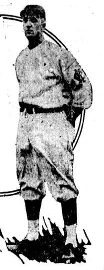 Rube Lutzke in a newspaper.